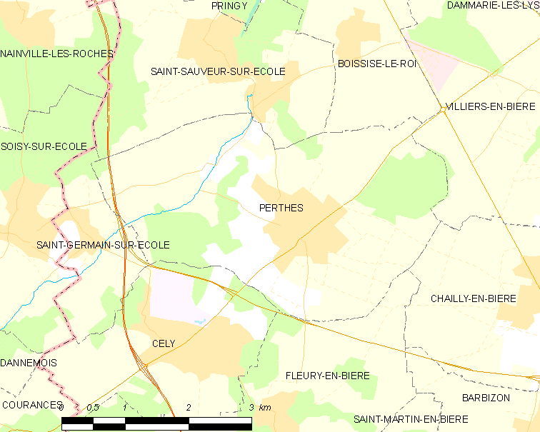 Map of French municipality Perthes